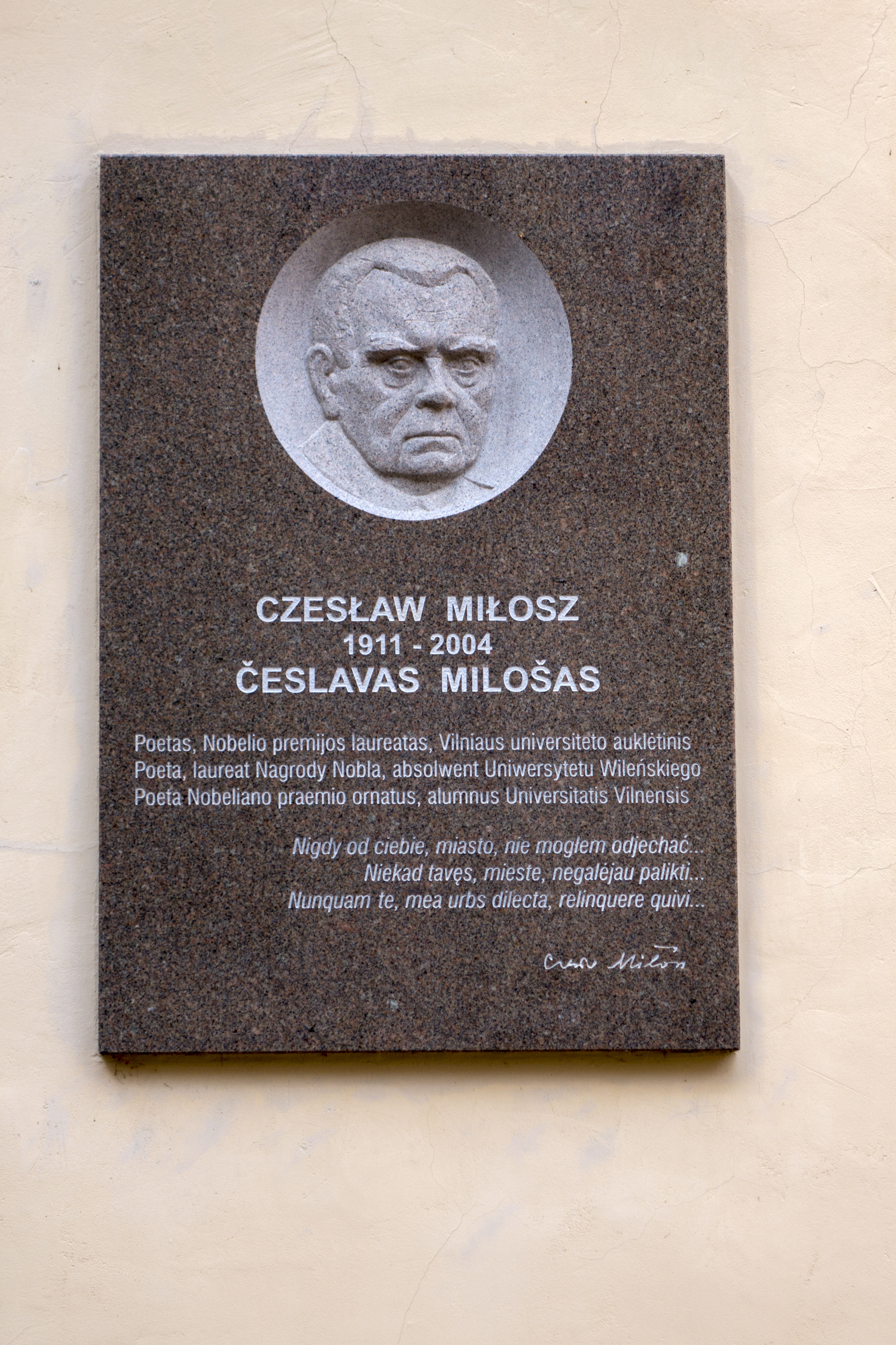 The plaque in memory of Czesław Miłosz in the Vilnius University